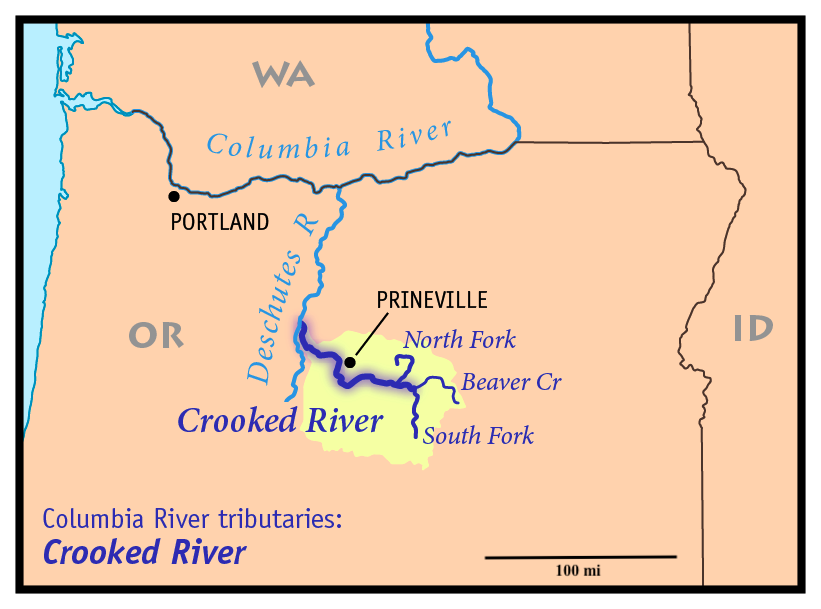 This is a map of the Crooked River of Oregon. I, Pfly, created it based on USGS and Digital Chart of the World data.